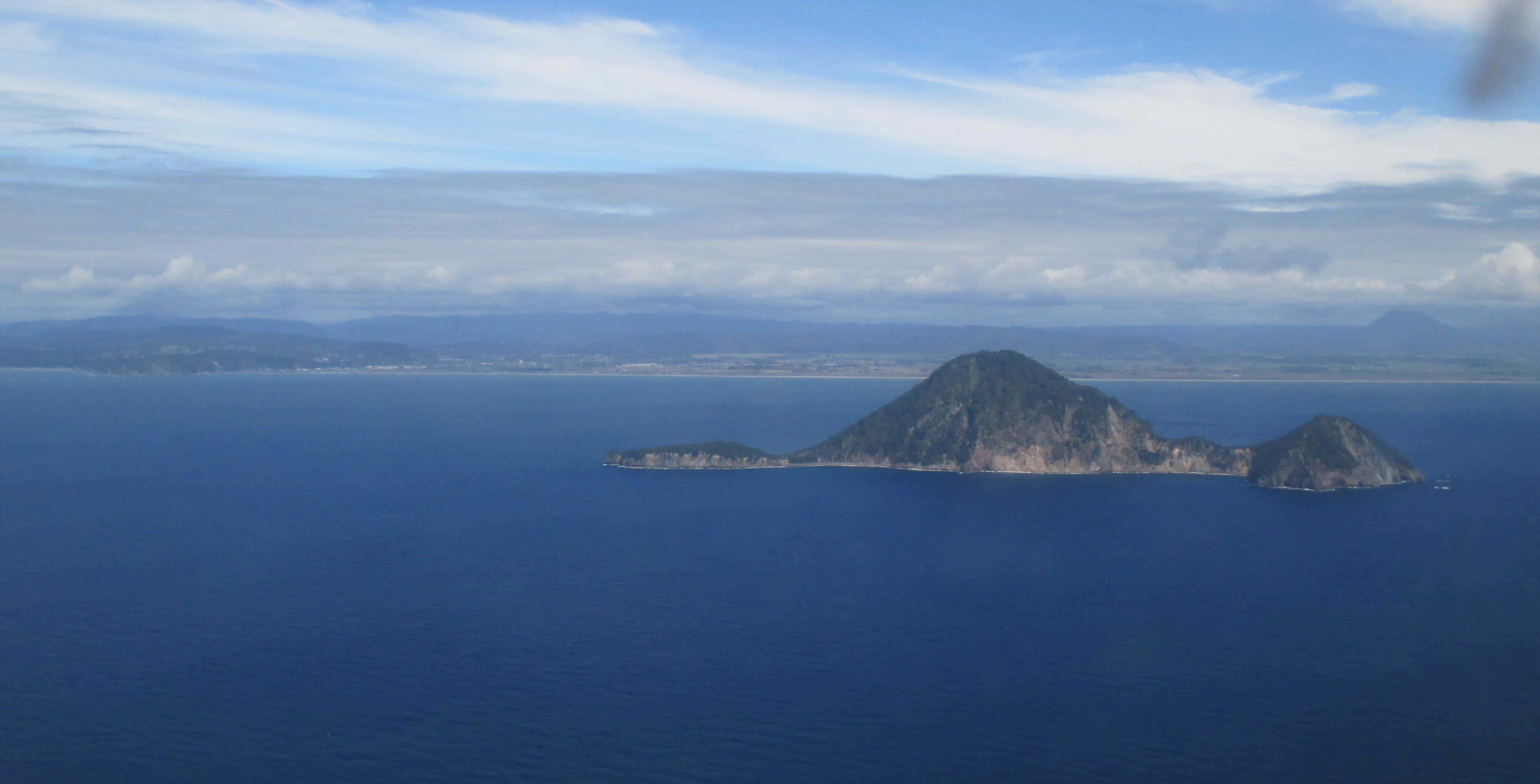 Whale / Moutohora_Island, Bay Of Plenty, New Zealand / Aoteoroa - as viewed from the North. Whakatane on the LHS of the photo and Putauaki / Mt Edgecumbe in the distance on RHS